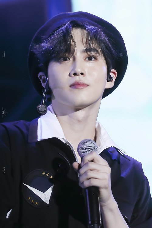 Suho at Asia Song Festival on September 24, 2017.